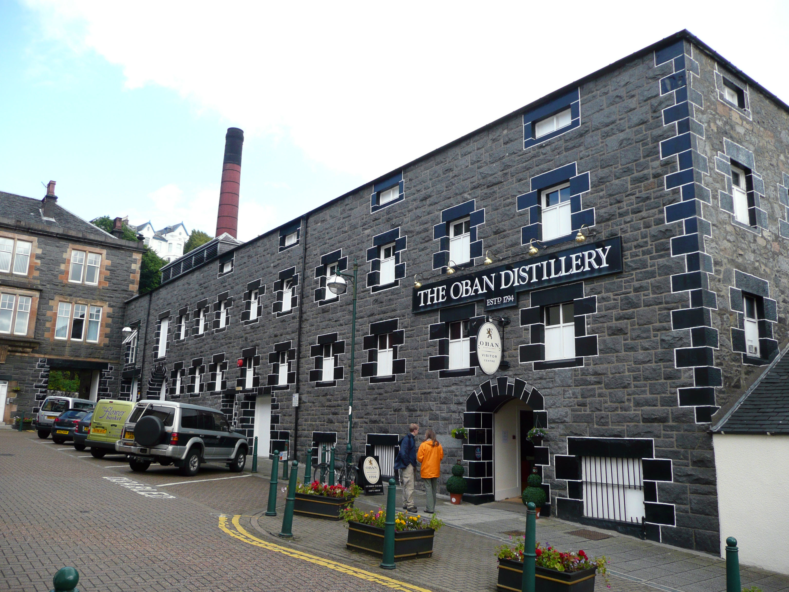 Oban Distillery